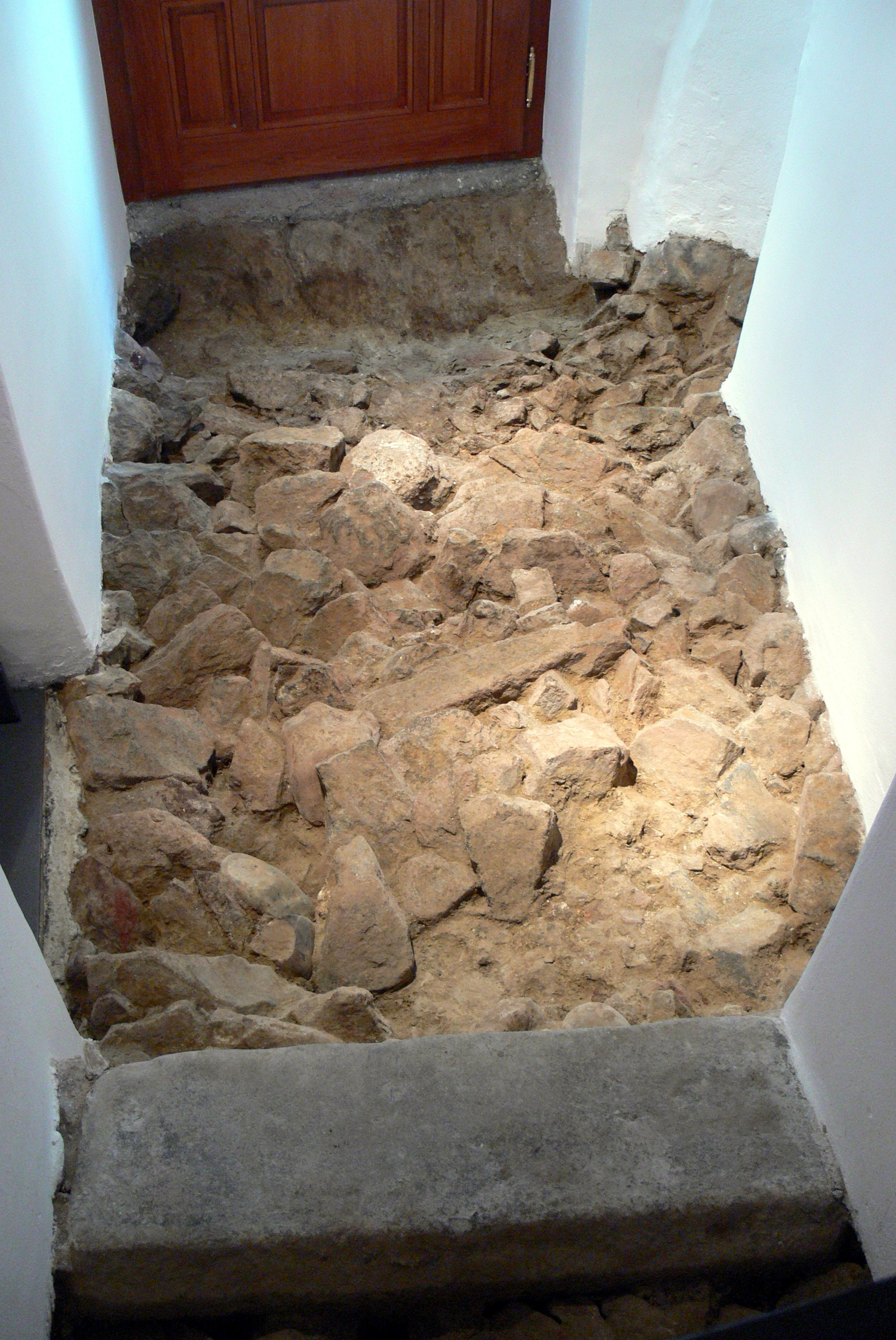 Roman museum Kastell Boiotro ( Passau ). Remnants of the late Roman fort called Boiotro.